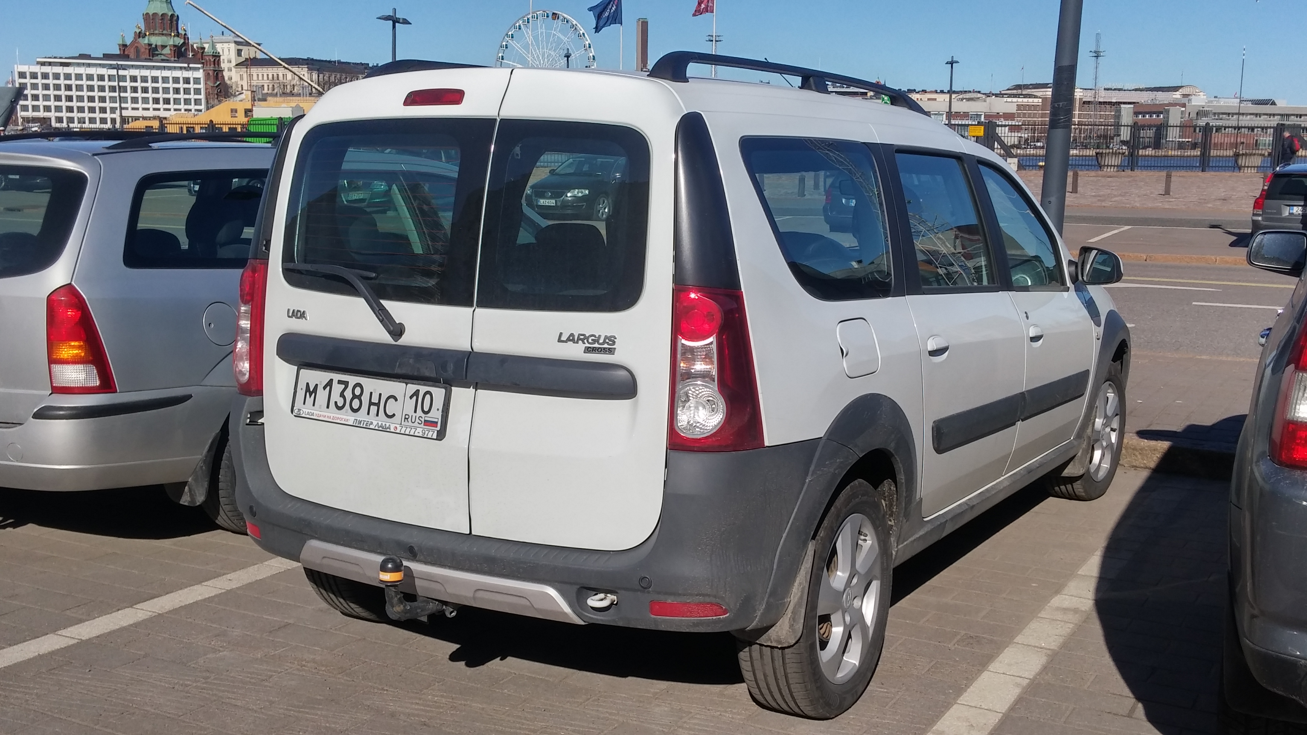 Lada Largus